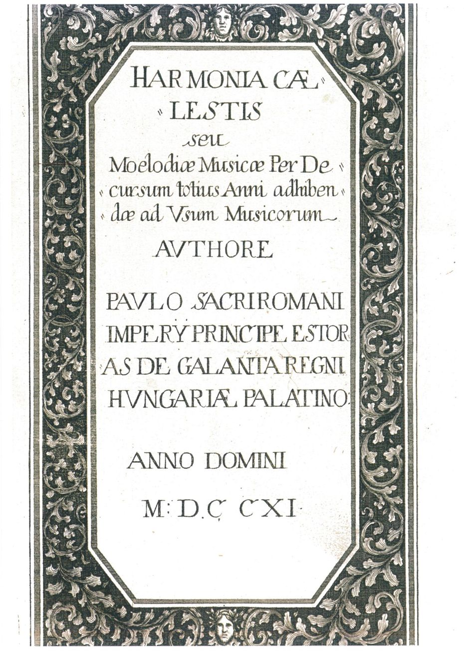 Title papge of Harmonia Caelestis